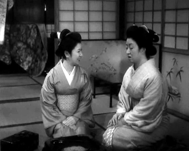 Screenshot from The Life of Oharu, 1952 film.